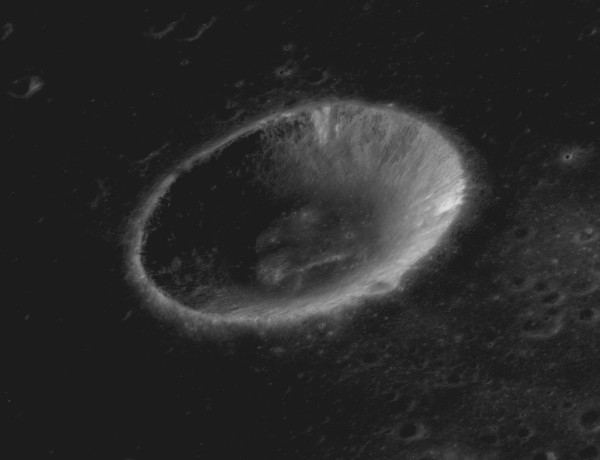 Oblique view facing south of Beketov crater, the moon. From Apollo 17 Panoramic camera.